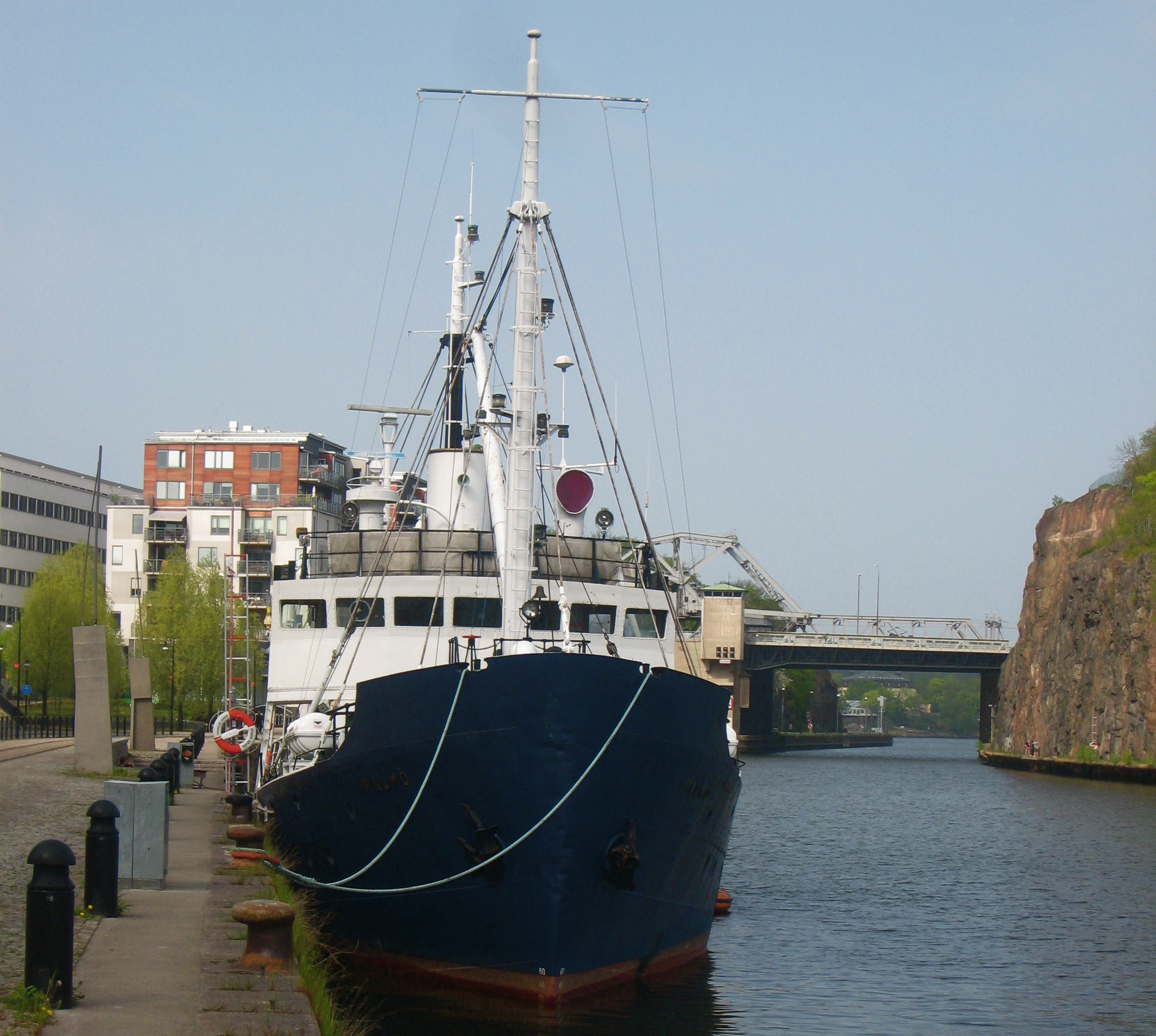 M/S Malmö This is an image of the protected Swedish ship M/S Malmö, with call sign SMYL .